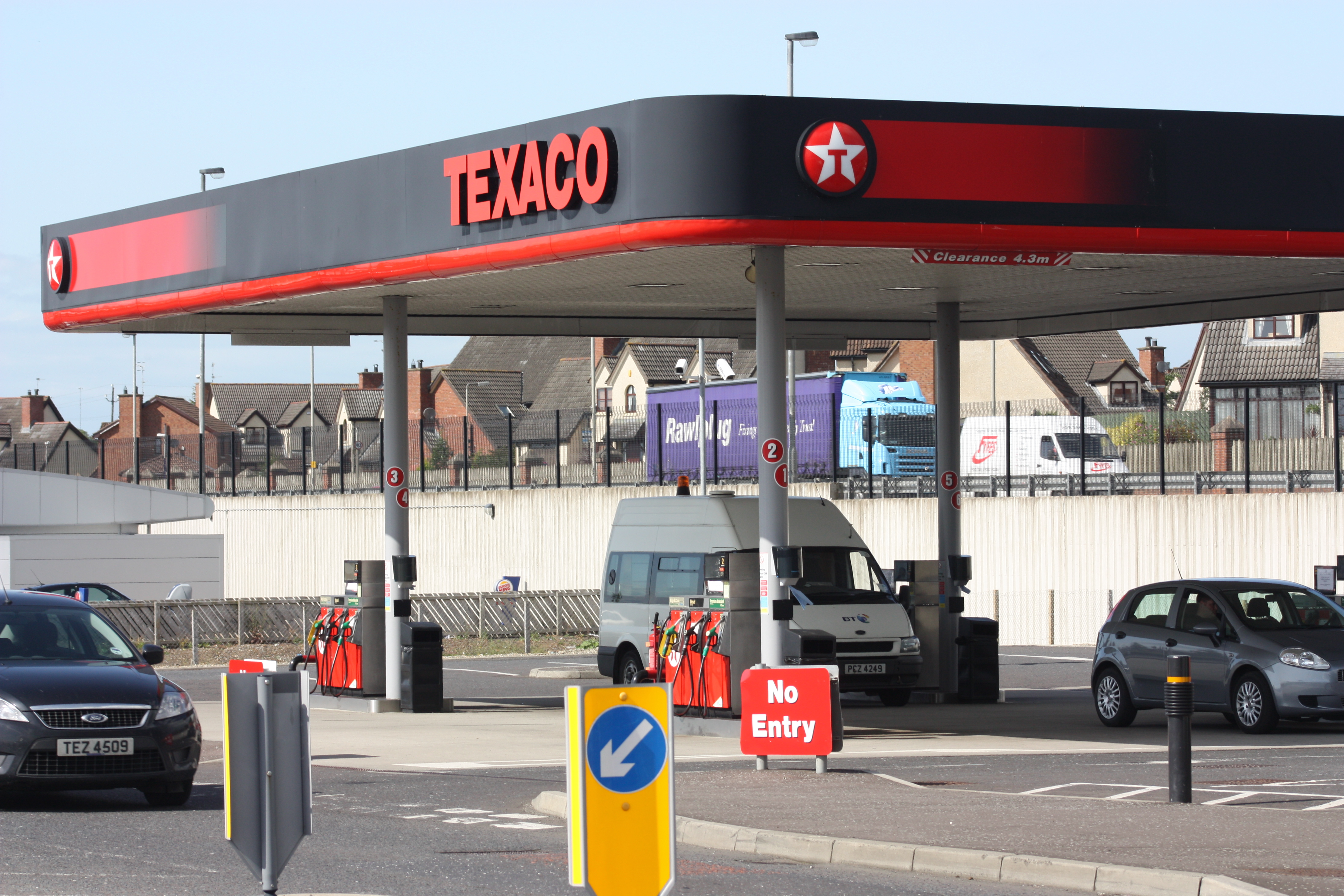 Texaco petrol station, with Centra Shop, Junction One Retail Park, Antrim, County Antrim, Northern Ireland, August 2009